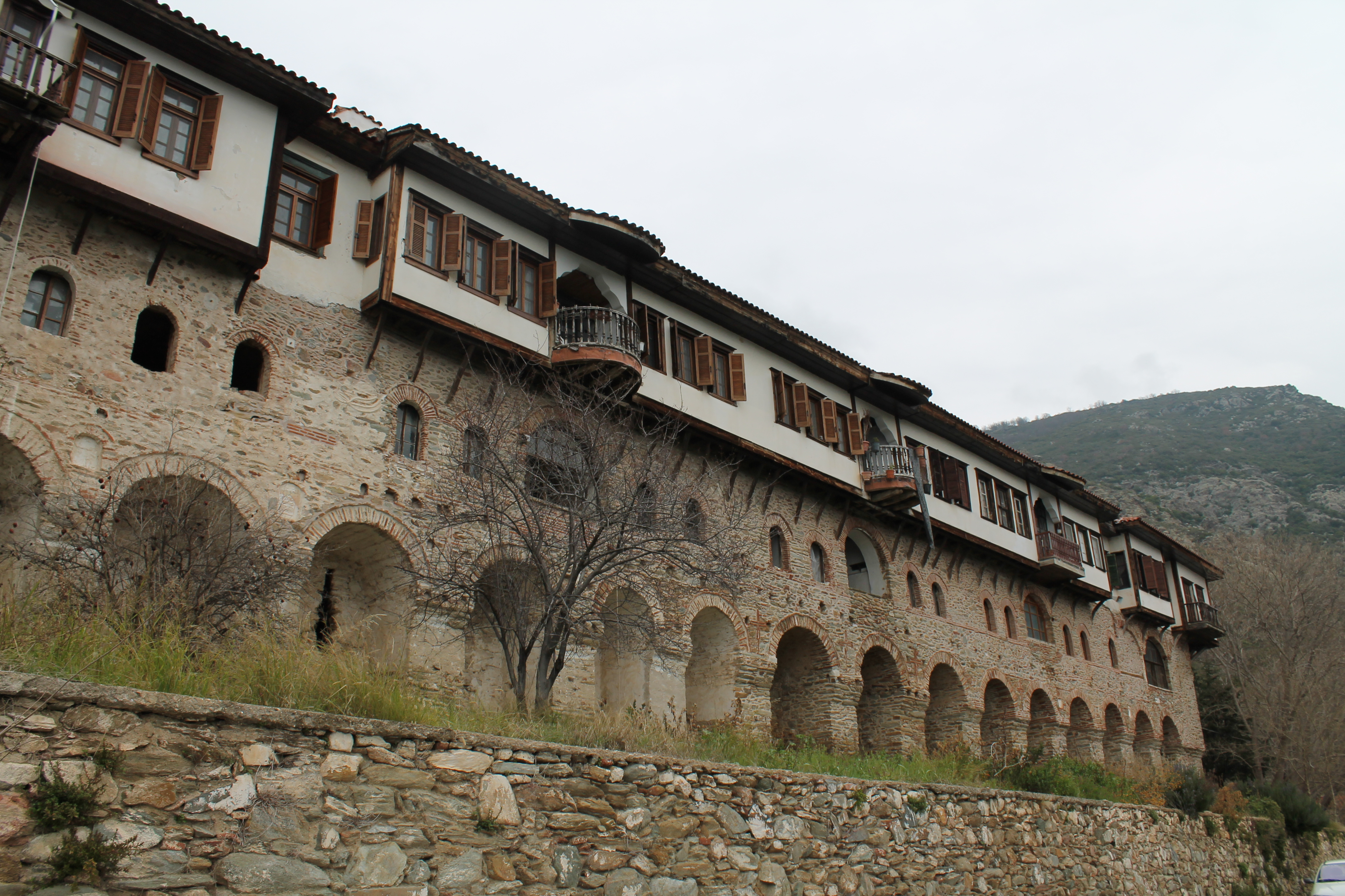 View from the monastery "St. Anastasia Farmakolitriya", Greece